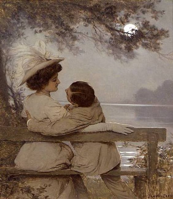 the Lovers, painting by Jan van Beers.